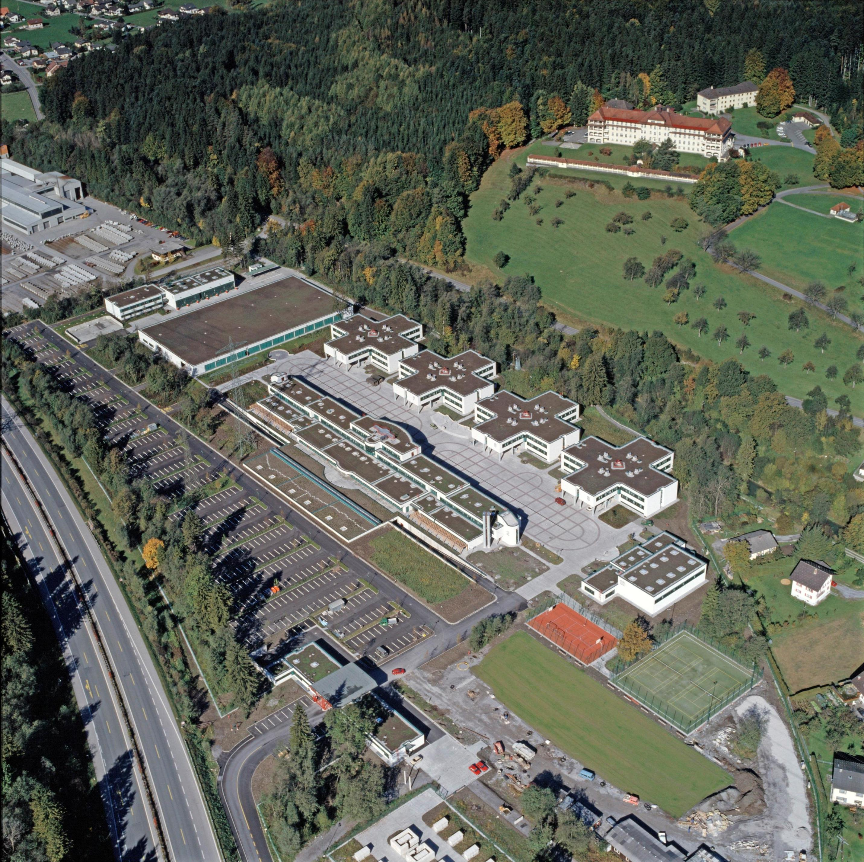 The Walgau barracks are barracks of the Austrian armed forces (Bundesheer) in Bludesch, Vorarlberg. This picture shows them in an aerial view shortly after the completion in 1989.